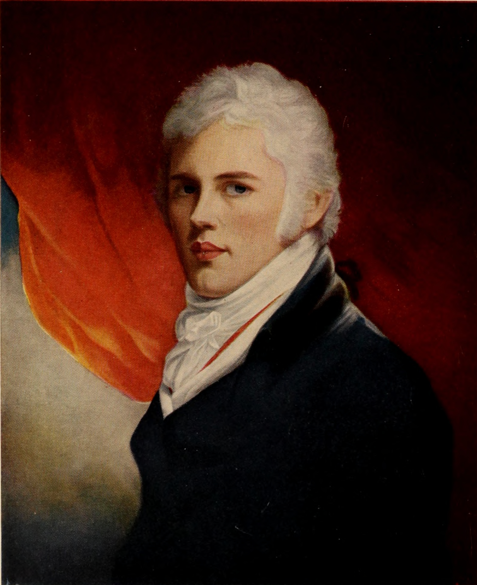 Edward Greene Malbone, self-portrait, Corcoran Gallery of Art